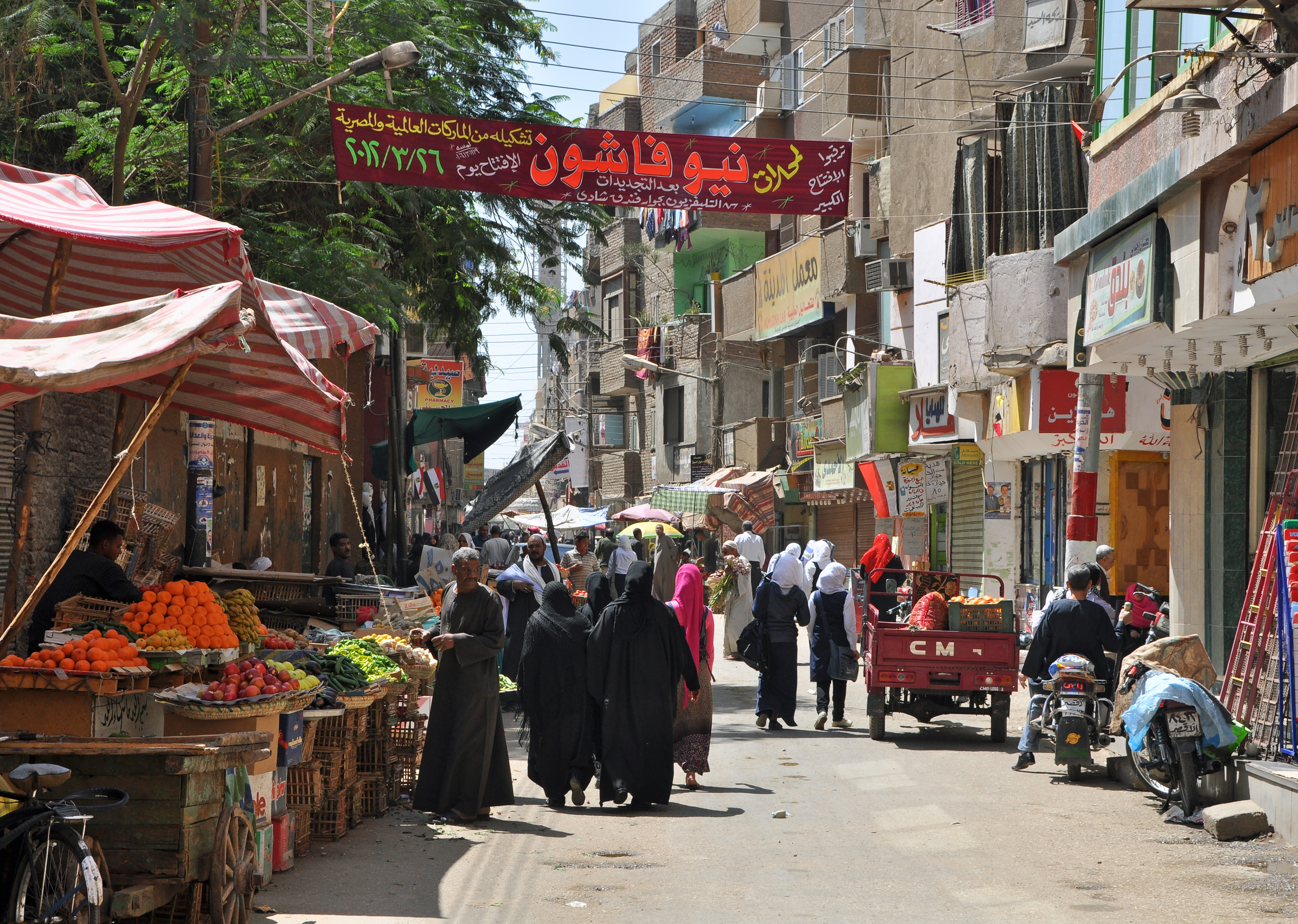 Luxor (Egypt): El Madina El Monawara street